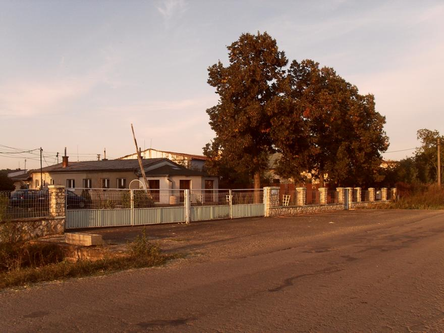 Borough of Kinčeš, Village of Dvorianky